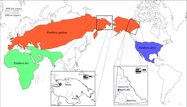 A map of the approximate distributions of late Pleistocene lions. Red indicates the maximal range of Panthera spelaea; blue the maximal range of Panthera atrox; and green the maximal range of Panthera leo leo/Panthera leo persica. Stars show approximate locations of lion samples. The insets show details of the modern boundaries of Yukon Territory, Canada, and Chukotka, Russia, along with regional settlements.